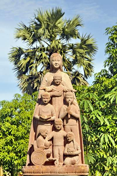 Mary, Mother of Inclusive Love. This image of Our Mother is enshrined in almost all the churches in the Prefecture. Everyone has a place in Mary who brings us close to Her Son, Jesus.